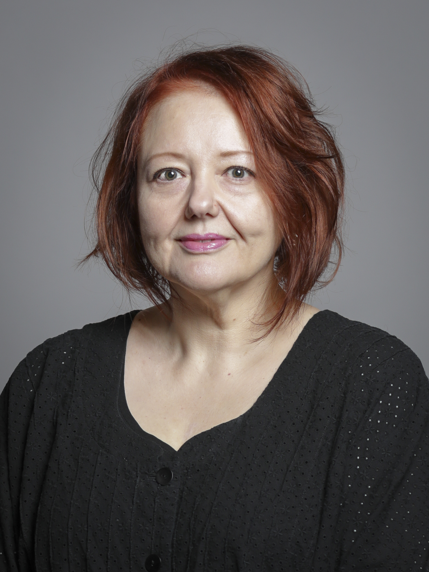 Official portrait of Baroness Kennedy of Cradley 3×4 portrait of Baroness Kennedy of Cradley